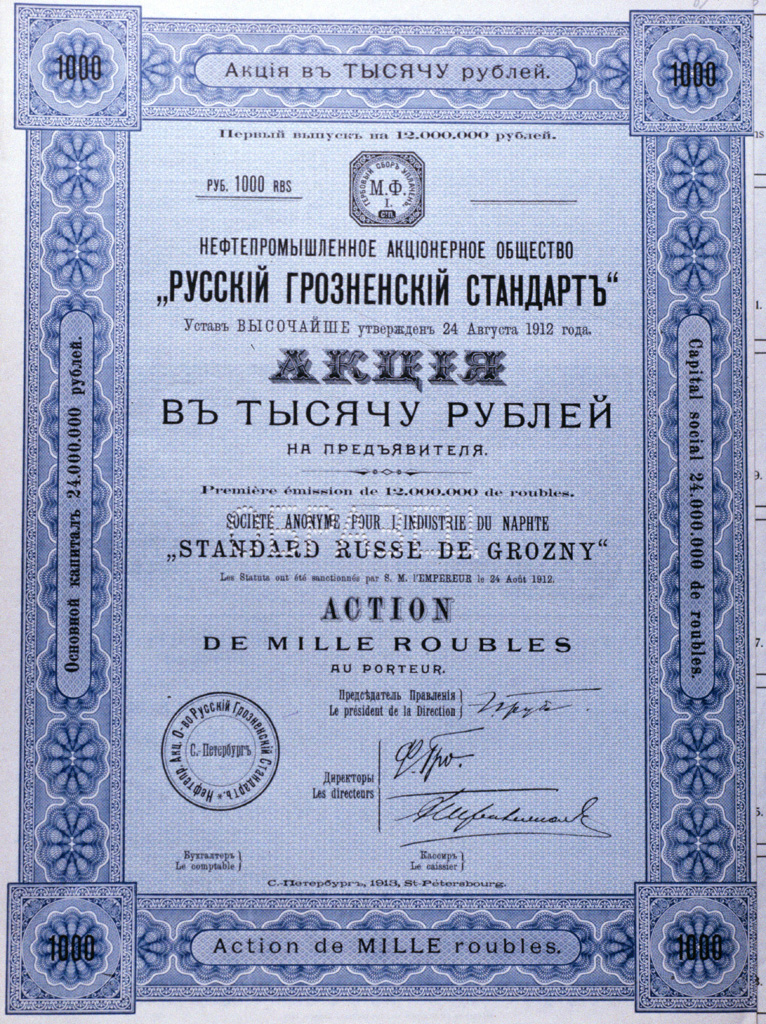 “Russky Groznensky Standard oil industry shareholding company's share”. A 1,000 rouble sample of Russky Groznensky Standard oil industry shareholding company's share, 1913.